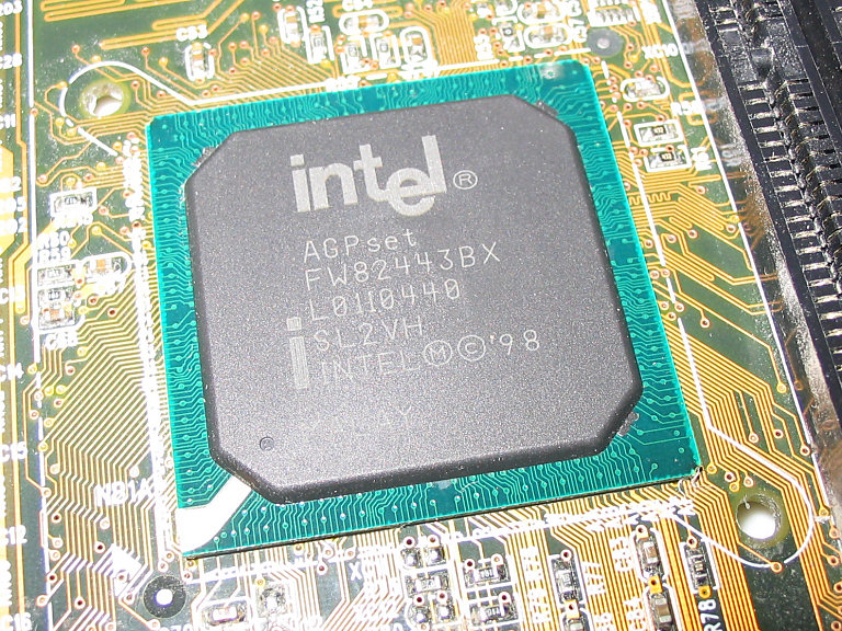 Intel 440BX chipset photo. Photographed by User:Swaaye.